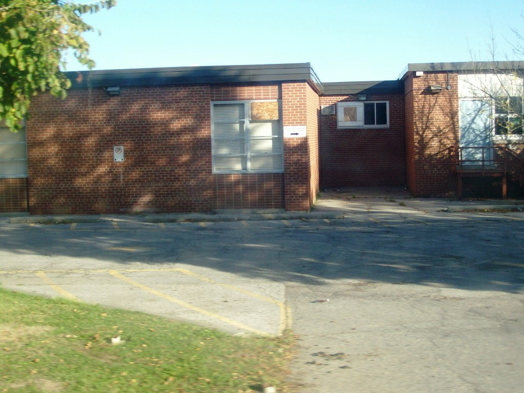 Current view of Cummer LINC (formerly Lester B Pearson PS, old) looking north on the 42 Cummer bus, October 2013. The site will be the future home of St. Joseph's Morrow Park Catholic Secondary School, which will open in 2015.